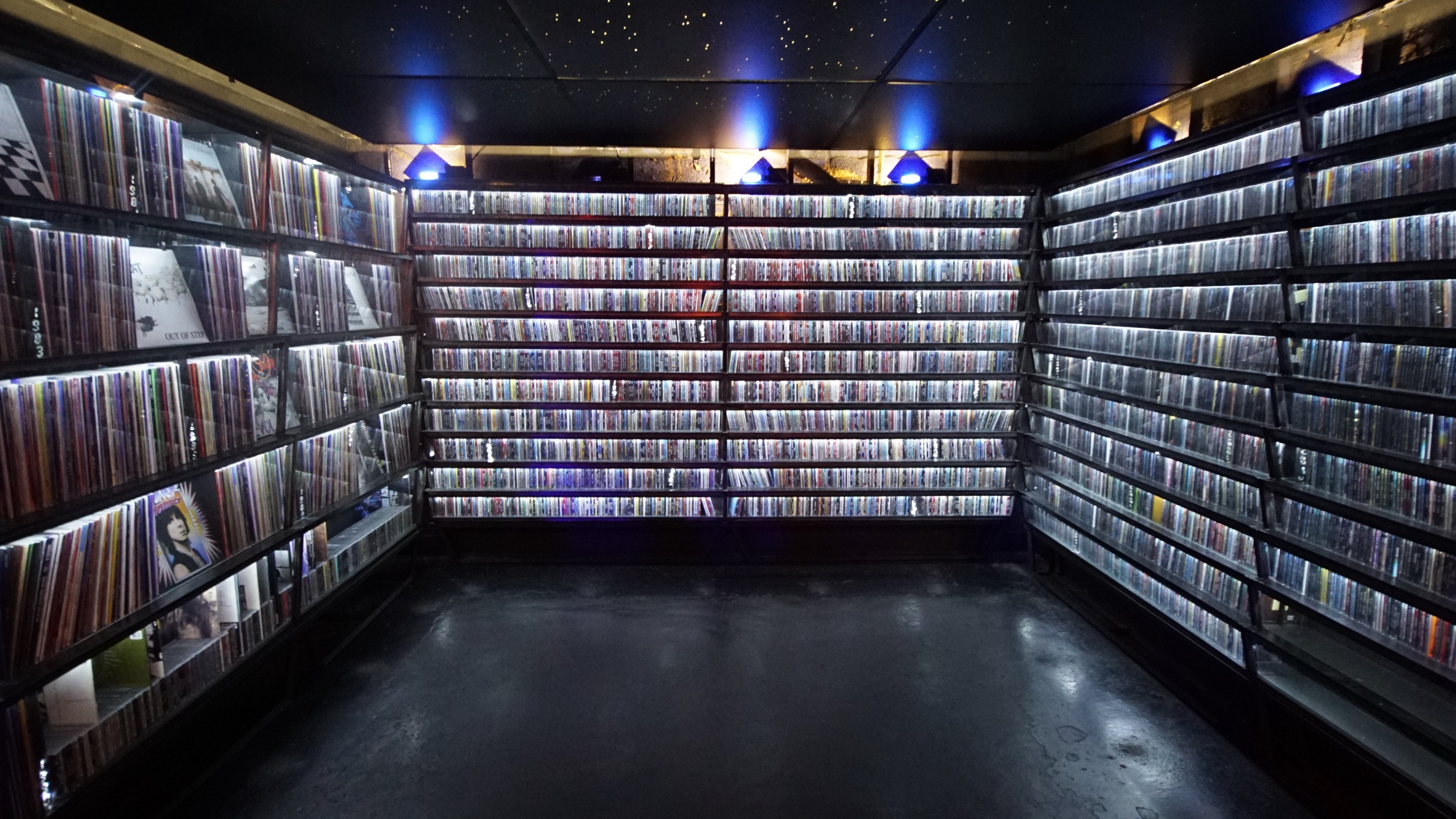 The 9:30 Club's Hall of Records, documenting every headlining performance over the club's 37 years, in album form.